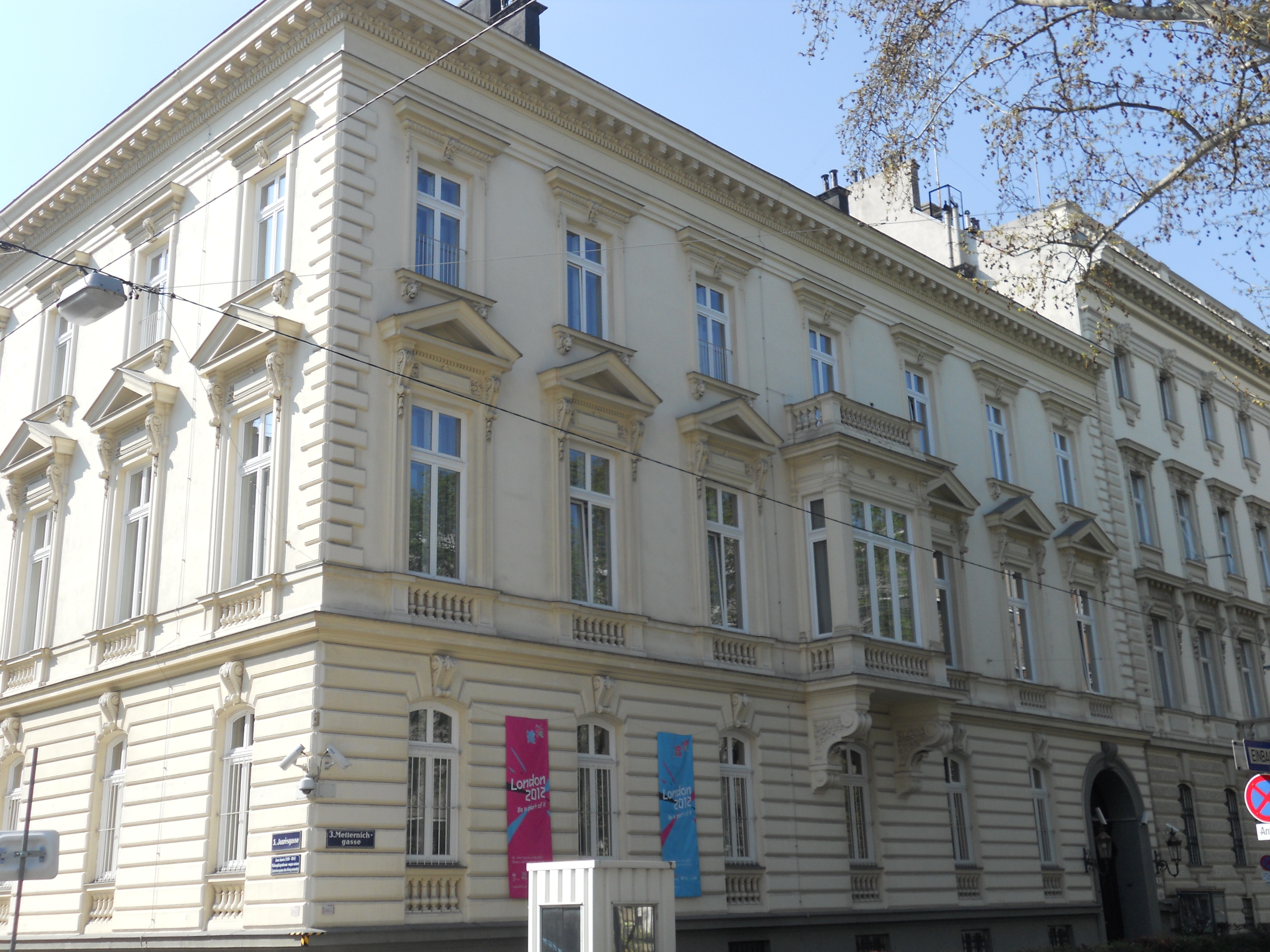 House Metternichgasse 6, part of the U.K. Embassy in Vienna